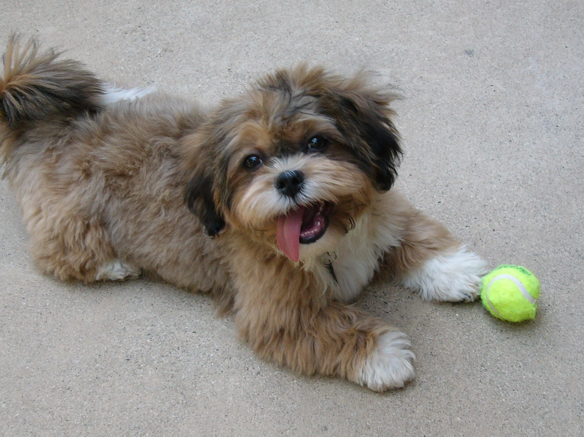 Shih-poo Puccini, age 15 weeks